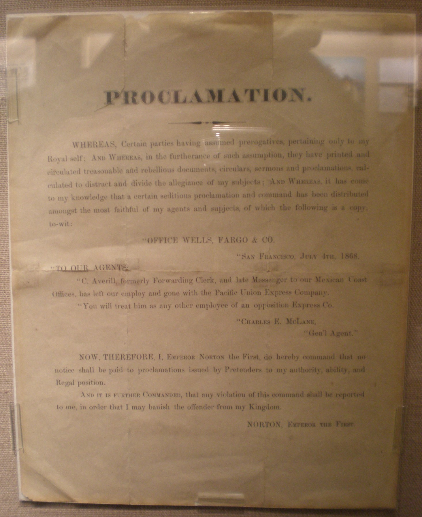 An undated proclamation Emperor Norton I regarding the assumption of his prerogatives by "certain parties" on display at the Wells Fargo History Museum in San Francisco, California.